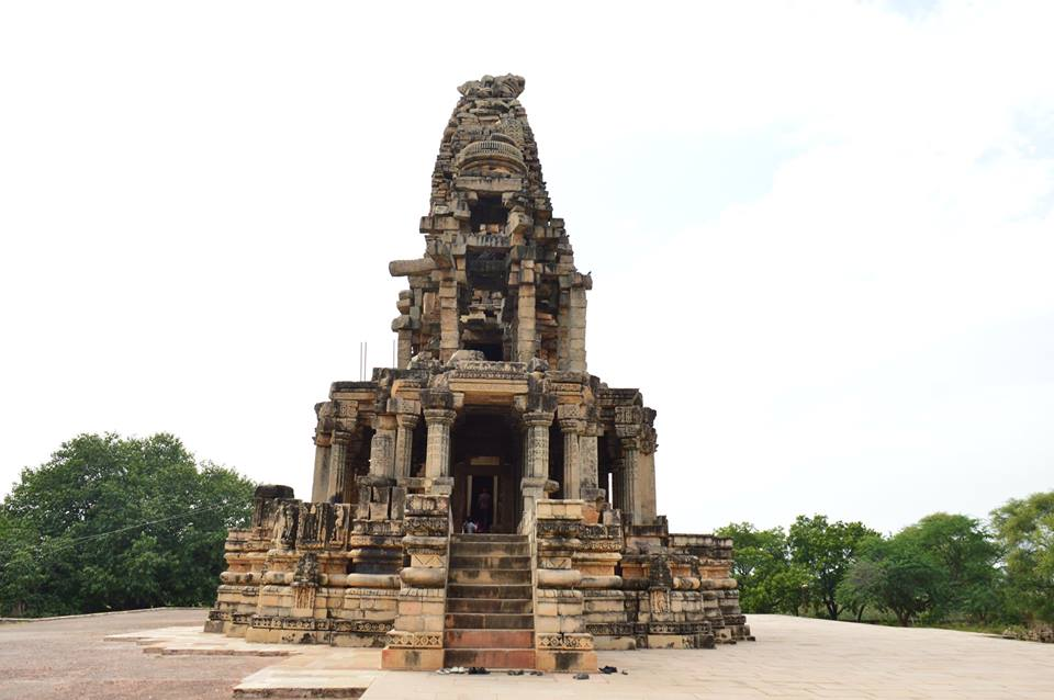 Kakan Math Temple:was built without using any adhesive materials.